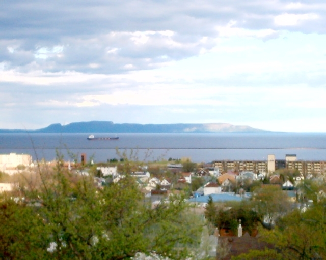 Sleeping Giant,is a formation of mesas and sills on Sibley Peninsula which resembles a giant lying on its back when viewed from the West to North-Northwest section of Thunder Bay, Ontario, Canada.